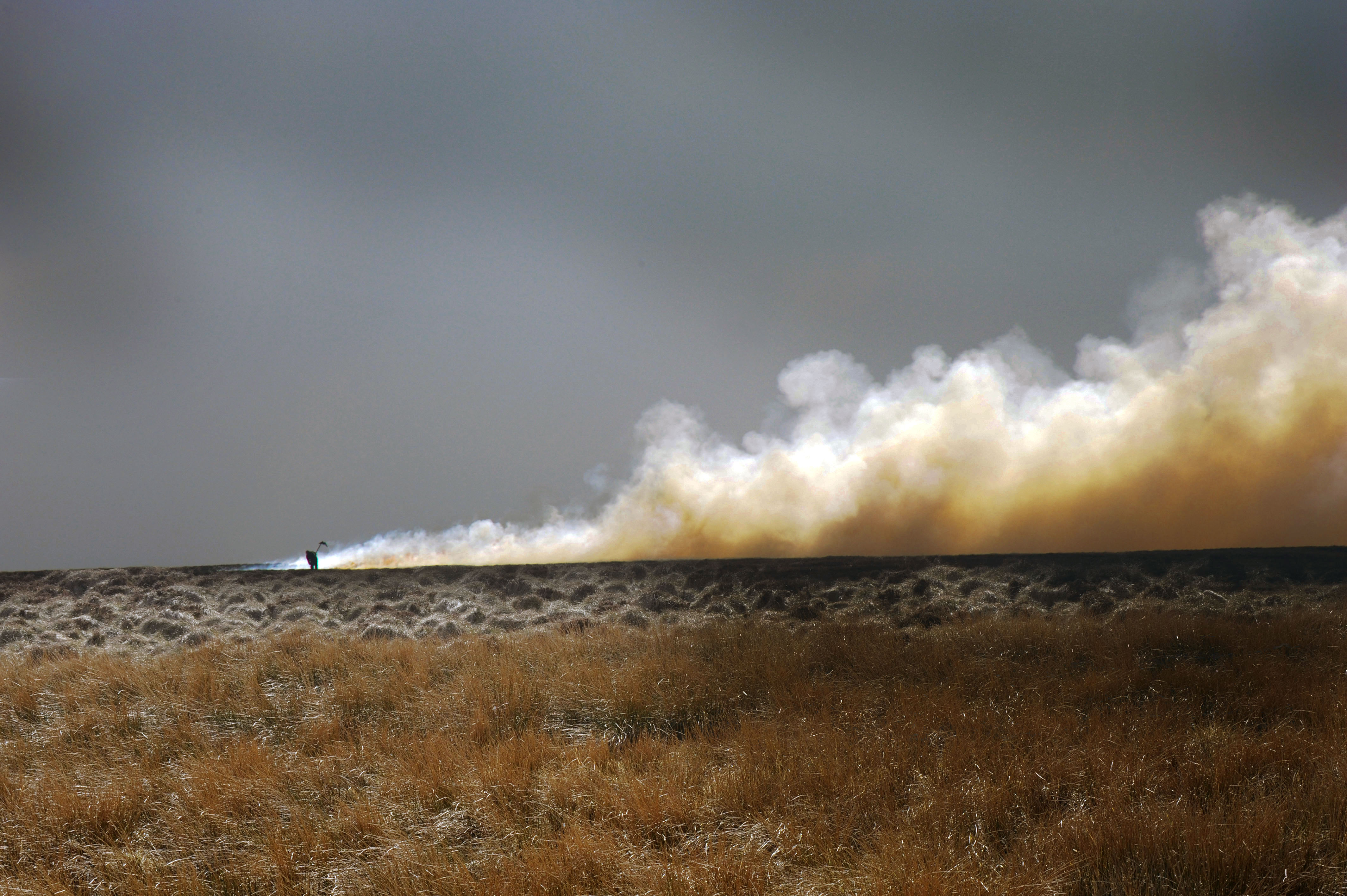 British Isles rural and coastal